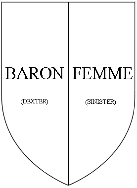 Diagram illustrating impalement in heraldry